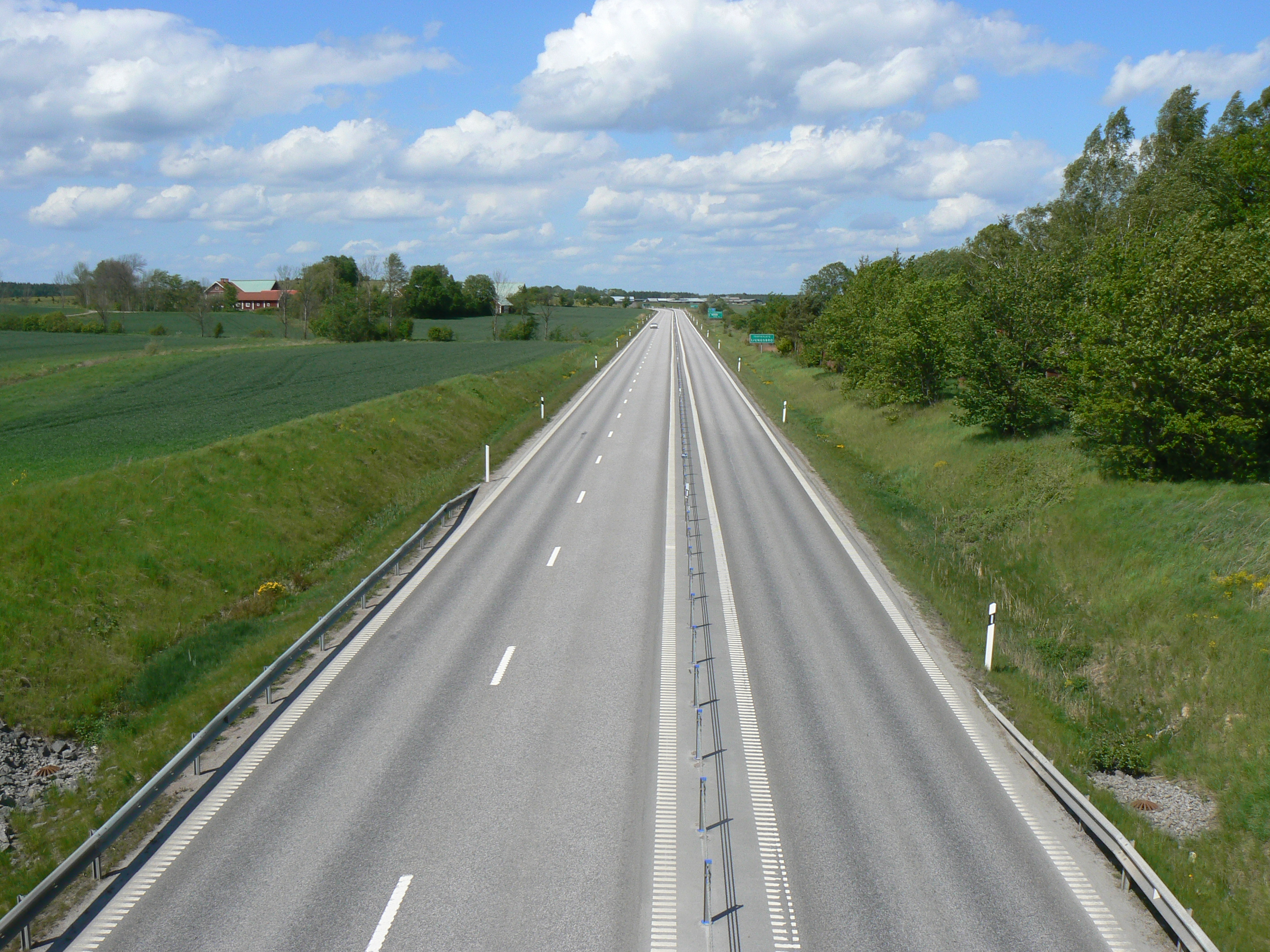 Swedish National road 36 north of Linköping